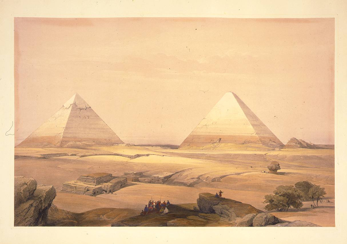 Pyramids of Giza. lithograph.